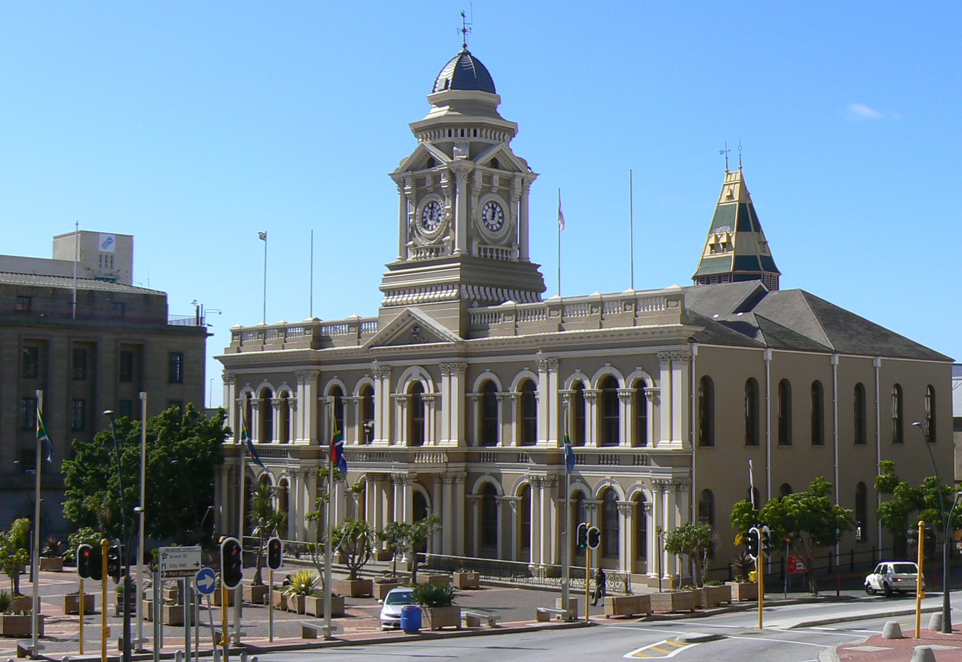 City Hall, Market Square, Port Elizabeth, South Africa This media shows a South African Protected Site with SAHRA file reference 9/2/073/0028.